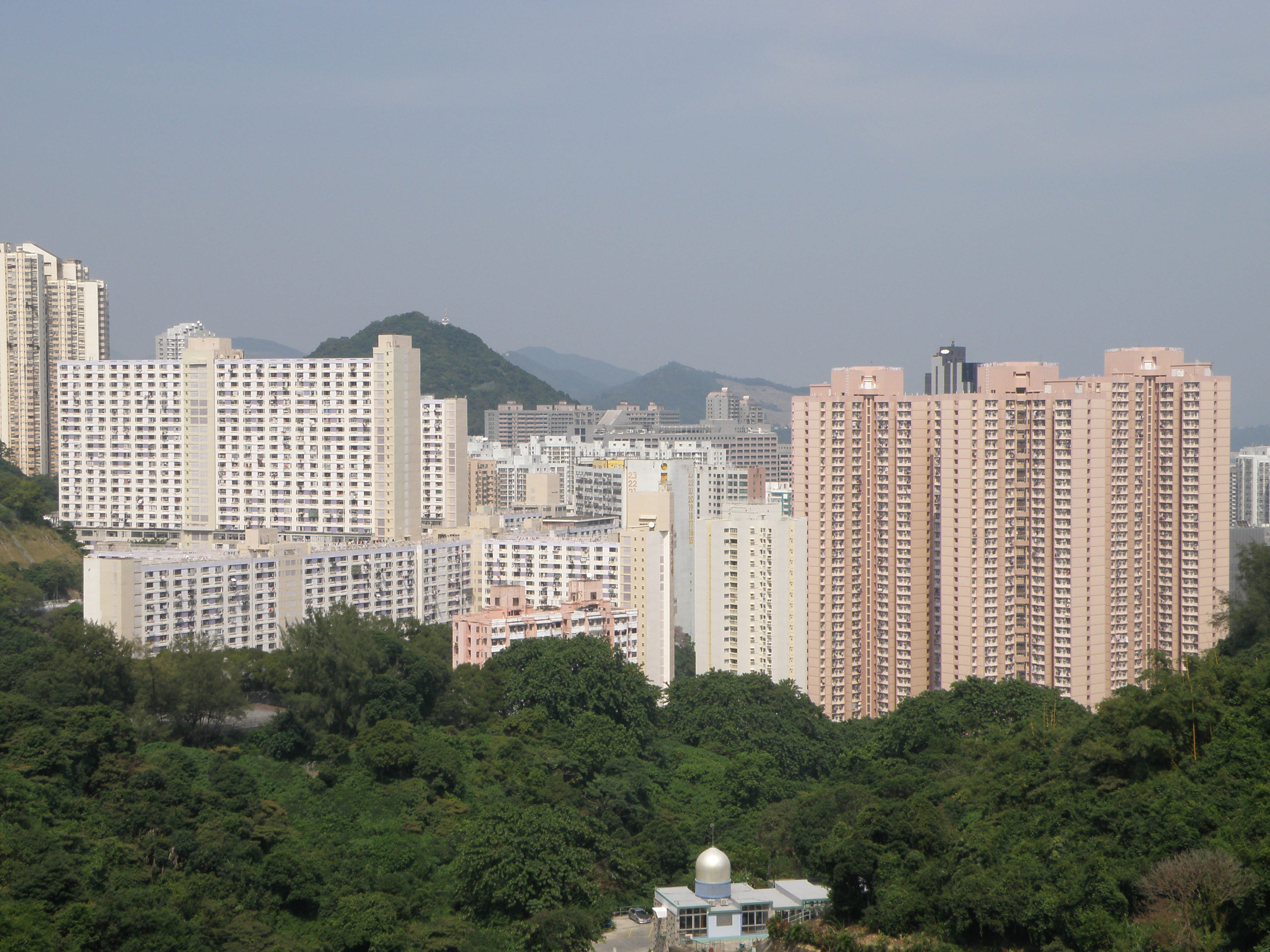 Hing Wah Estate in Chai Wan, Hong Kong.